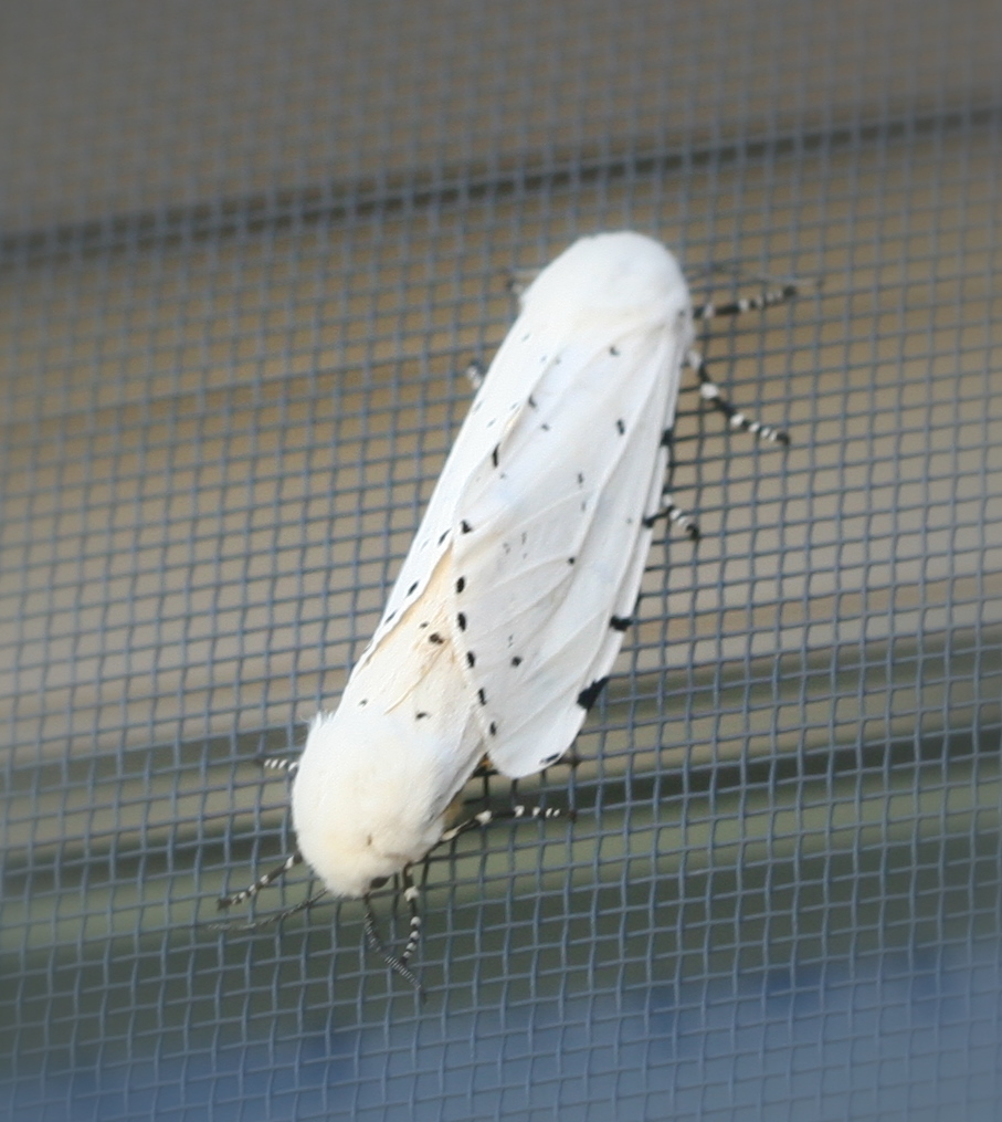 A mating pair of Salt Marsh Moths (Estigmene acrea)